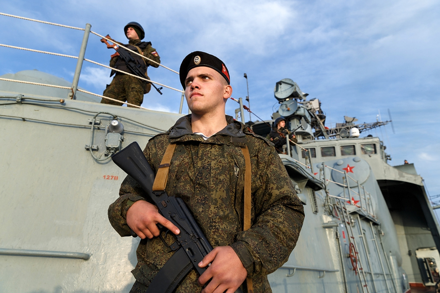 Permanent group of the Russian Navy in the Mediterranean Sea provides air defence in Syria